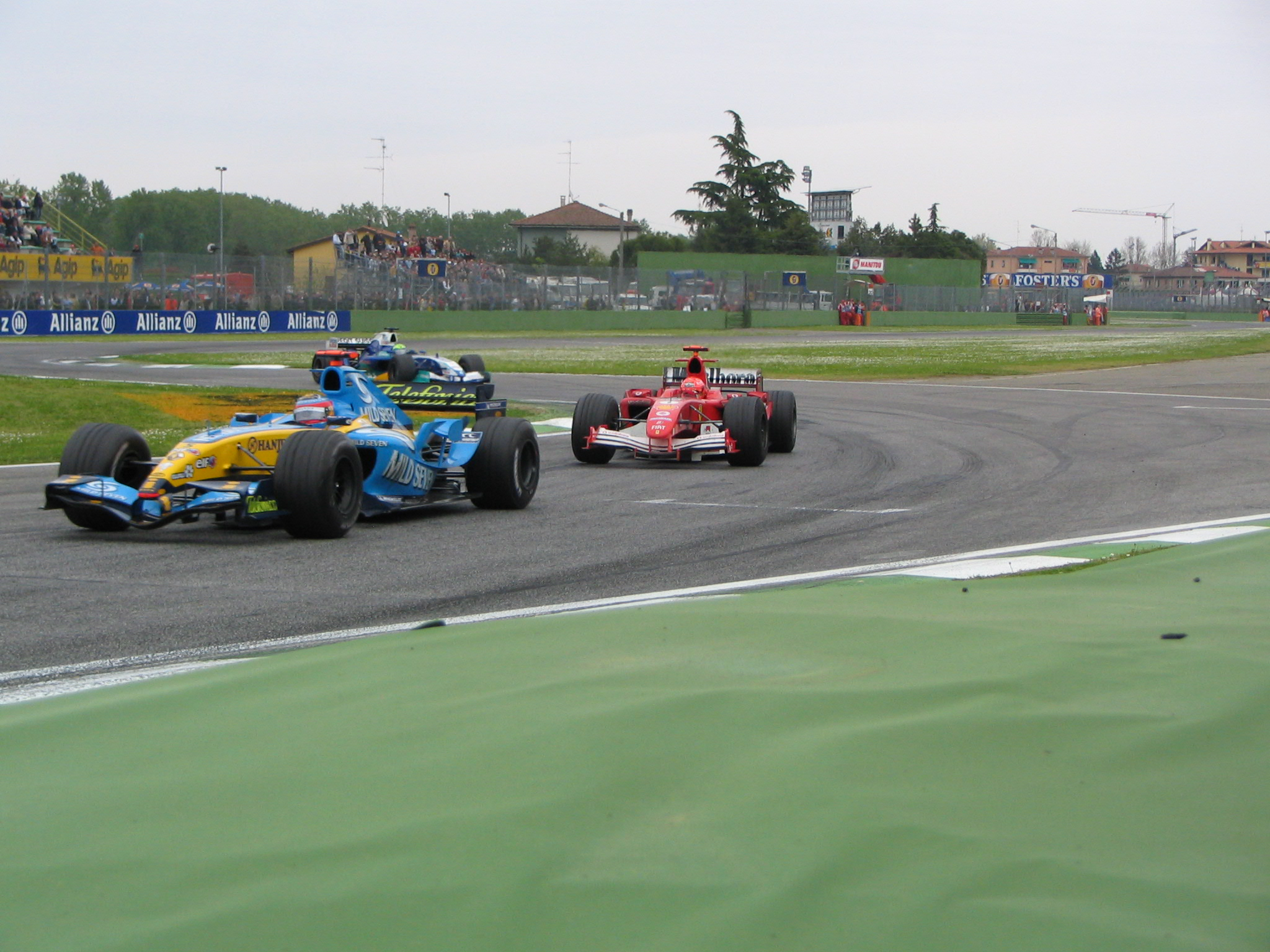 Fernando Alonso and Michael Schumacher battle for the lead of the 2005 San Marino Grand Prix. Felipe Massa's Sauber is also pictured behind Alonso and Schumacher.